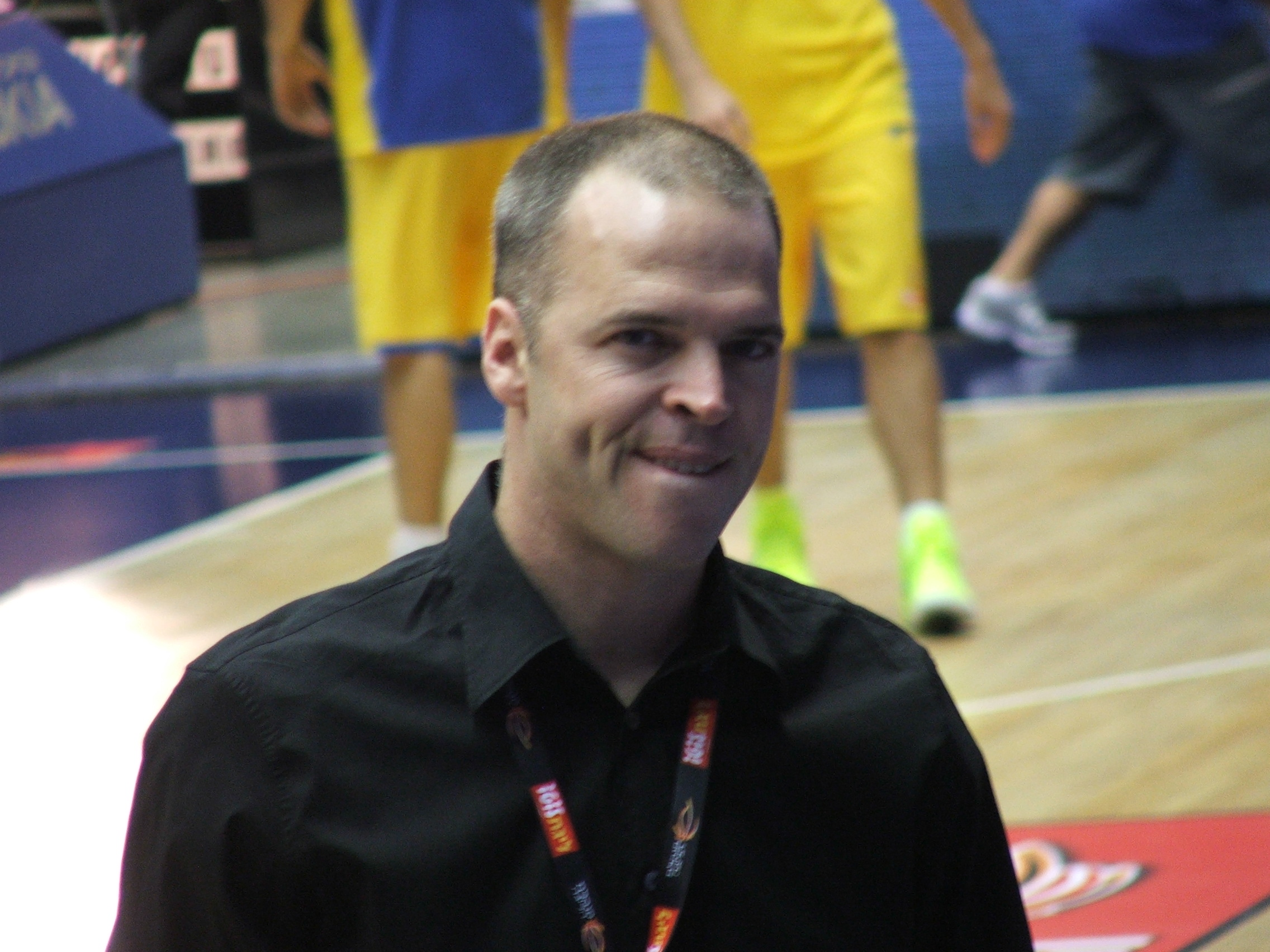 Maccabi Tel Aviv VS. Barak Netanya 31/10/11